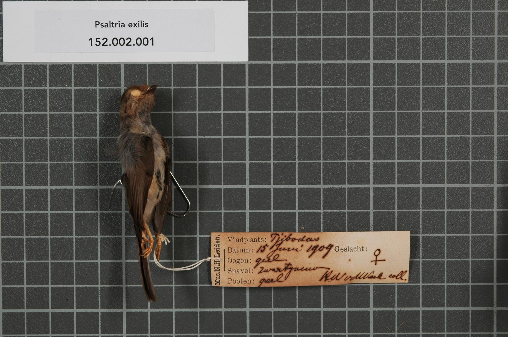 Psaltria exilis Temminck, 1836